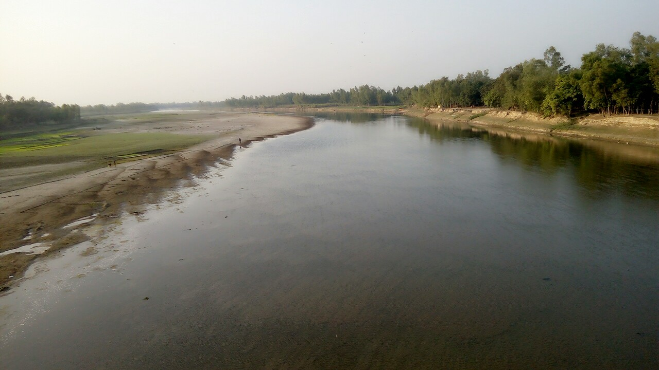 Kachdoh river in winter captured by Ruhan